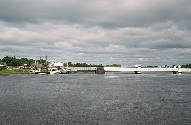 Portumna Bridge - the approach from the South The grey span swings to allow passage of boats; only dinghies can pass through without it being swung.